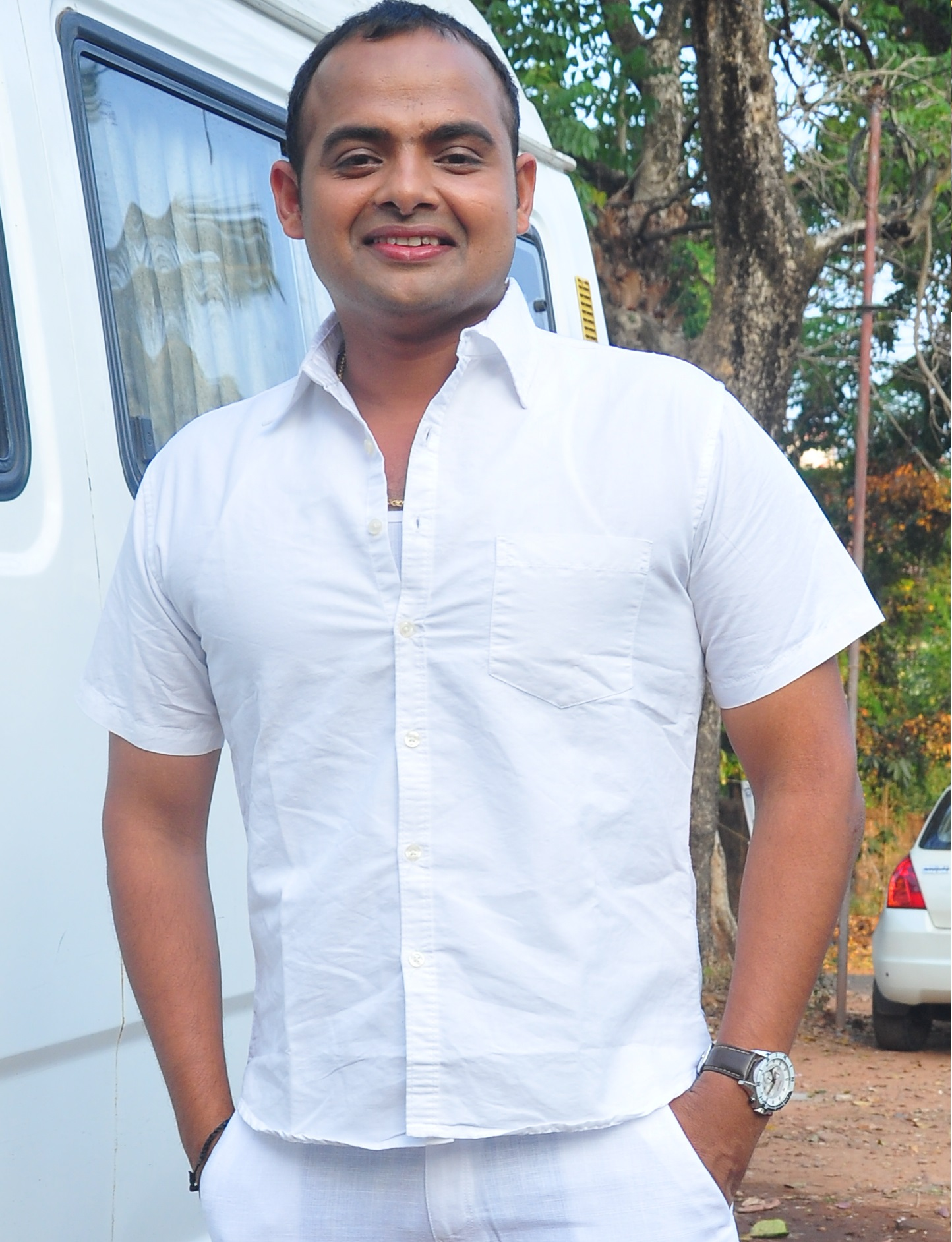 Sandeep Shetty Manibettu Tulu Movie Actor